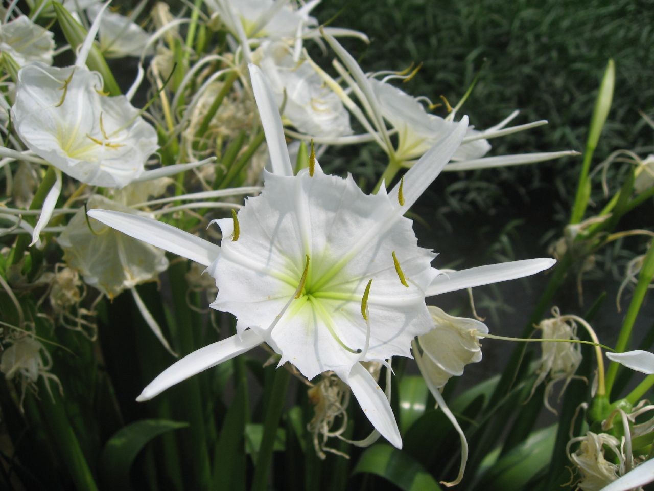 Close-up of Hymenocallis coronaria (Cahaba Lily)